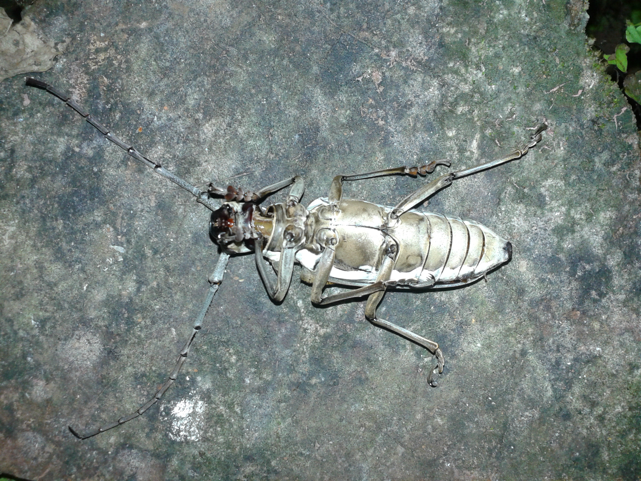 by Irvin calicut . beetle down side view